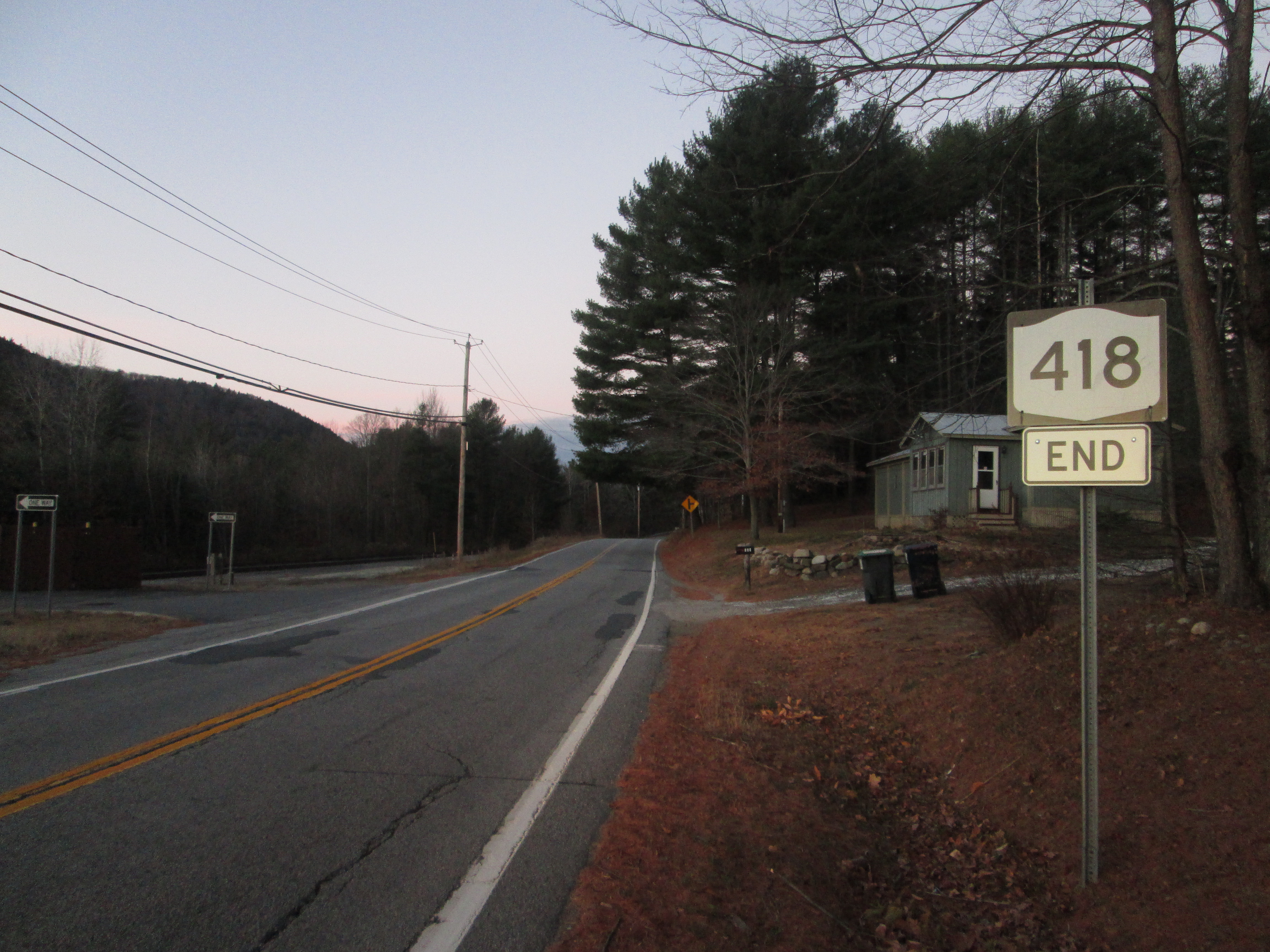 New York State Route 418 approaching its terminus in Thurman Station, New York.